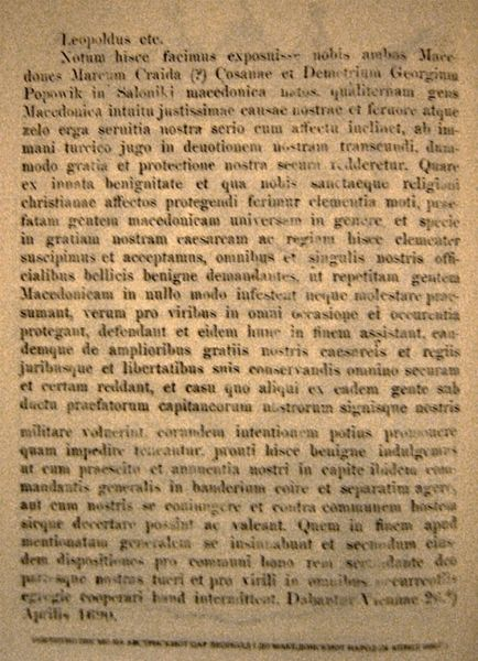 author: King Leopold I of Austria